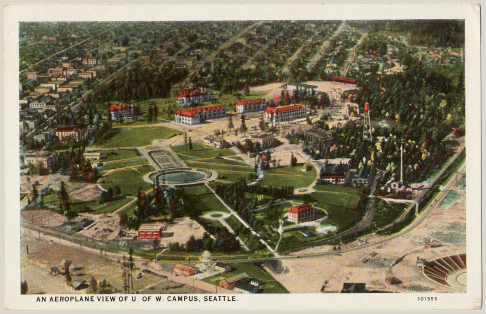 Aerial depiction of the University of Washington campus in Seattle